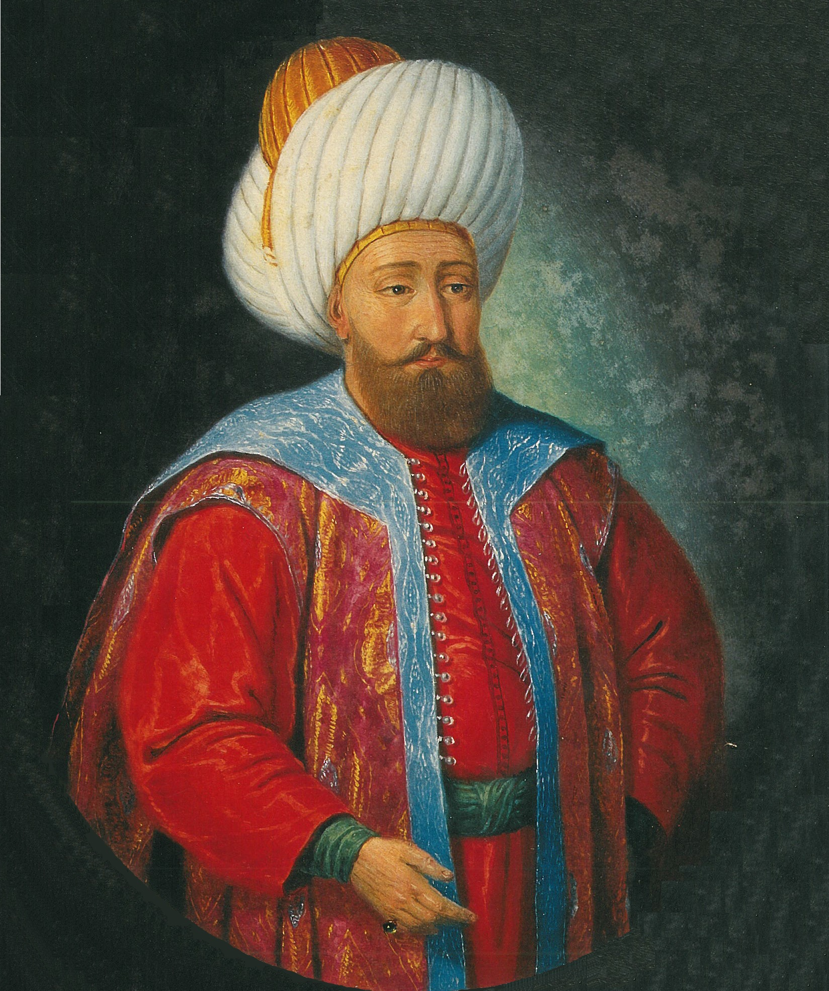 Bayezid I